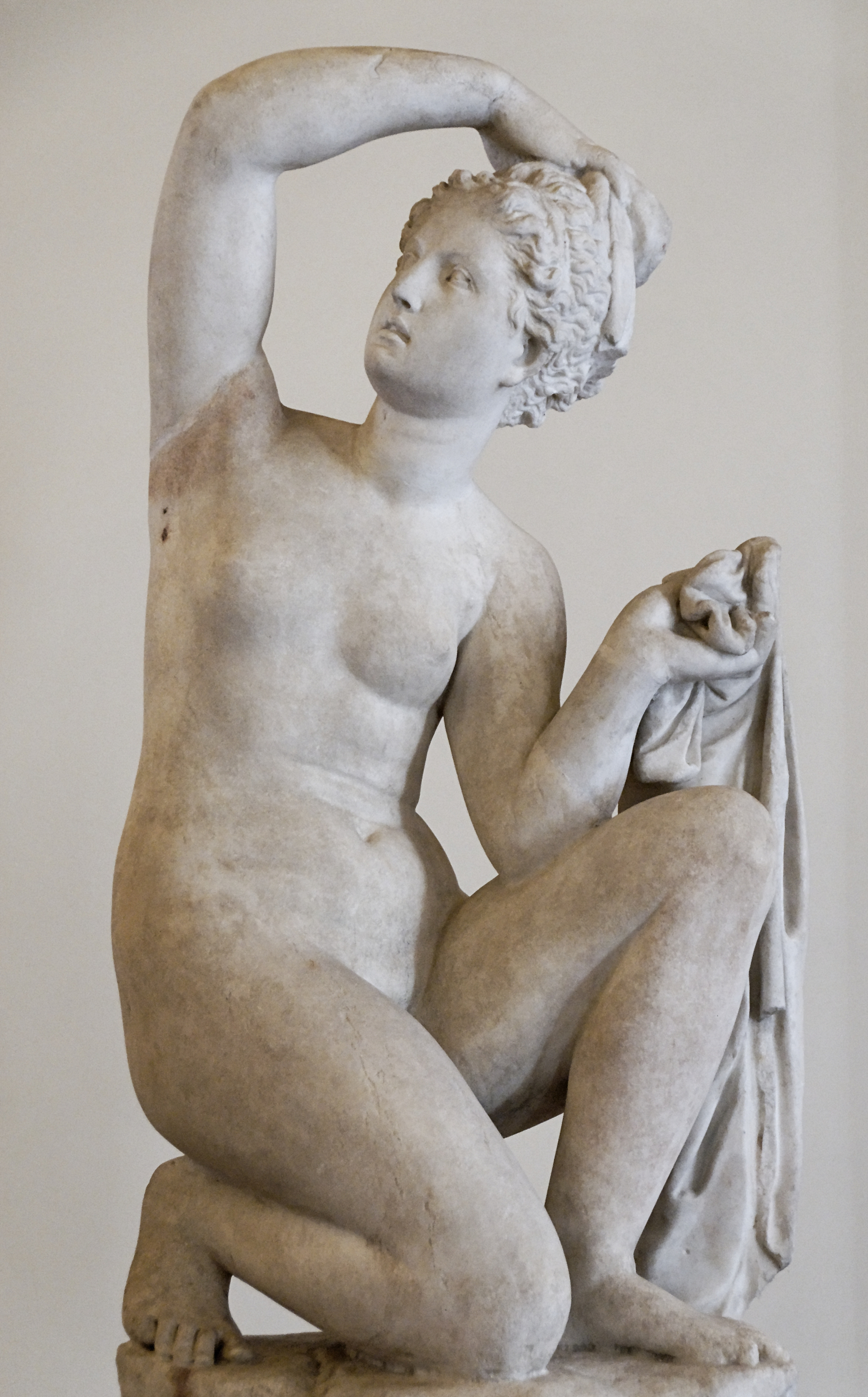 Croching Aphrodite. Coarse-grained marble, copy from the 1st century BC after a Hellenistic original of the 3rd century BC. The head and both arms are modern restorations; the head was originally aligned with the right leg.